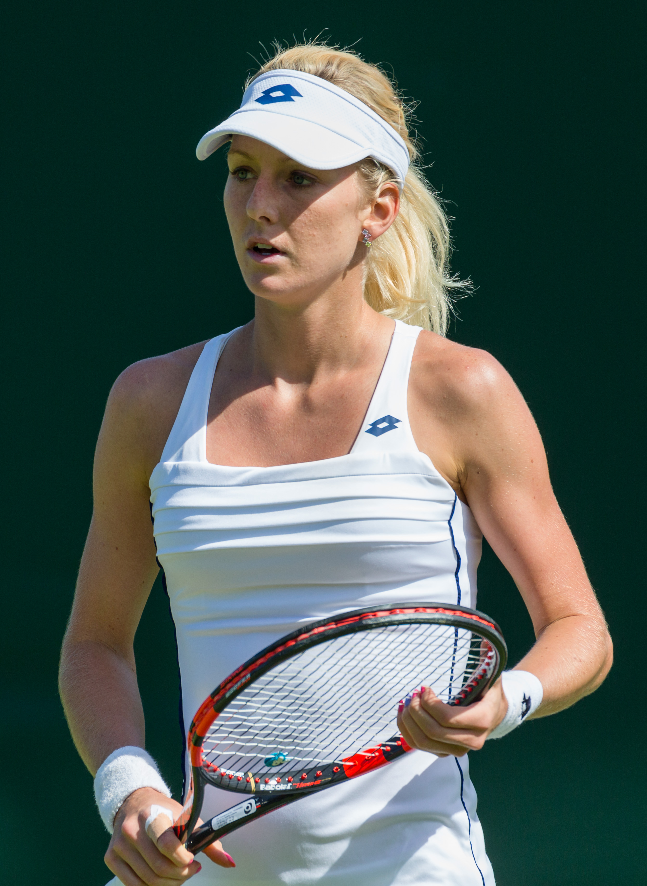 Urszula Radwańska competing in the first round of the 2015 Wimbledon Championships.